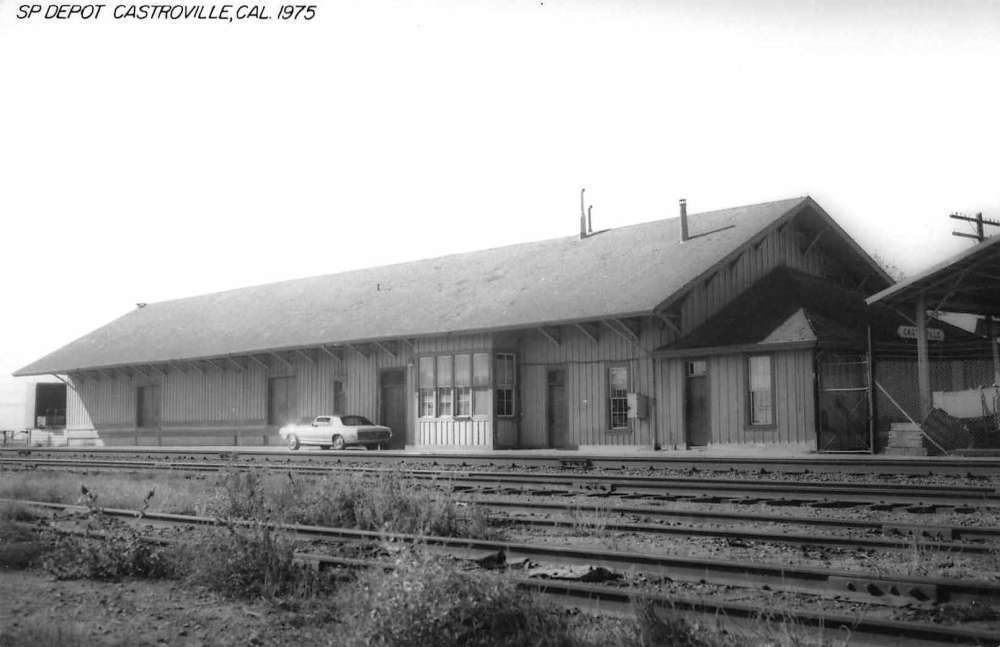 Castroville freight house in 1975, on a postcard published in the 1980s